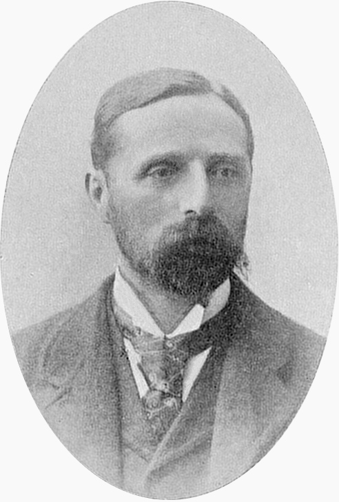 "H. E. Murray-Anderson, Somersetshire."